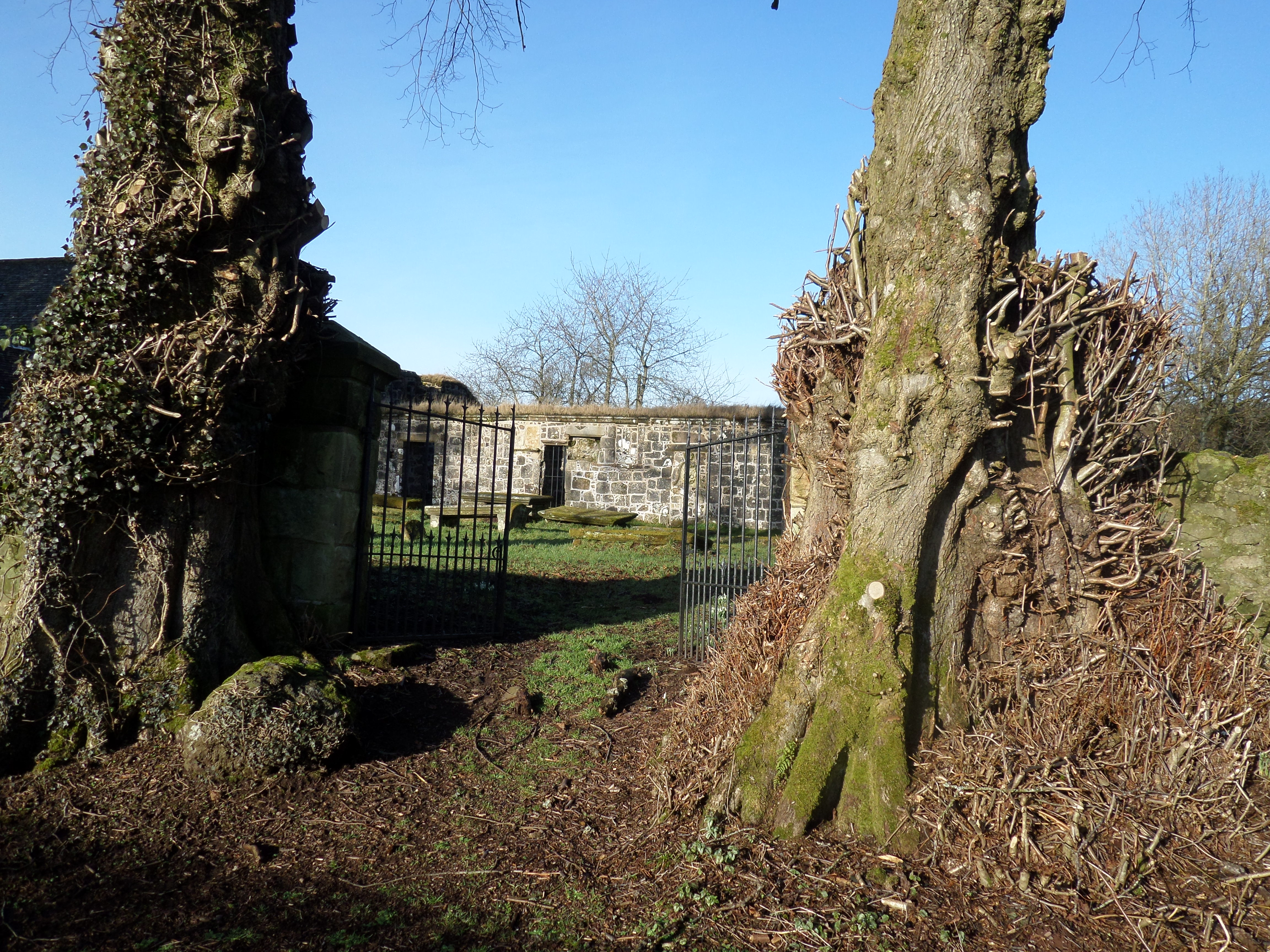 St Fillan's Kirk, Kilallan, Renfrewshire - entrance and church ruins